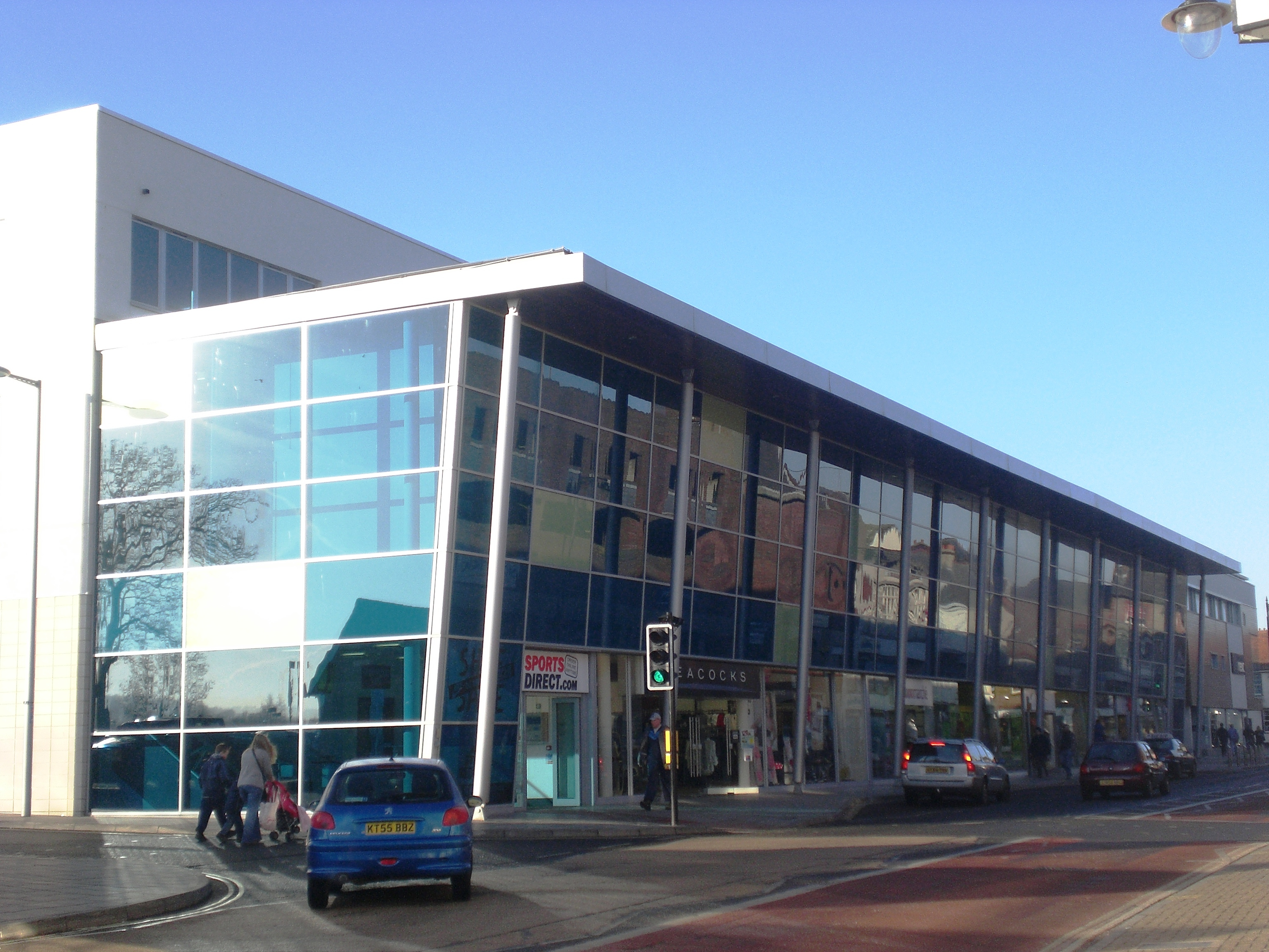 A new shopping centre development of five shops in Newport town centre on the Isle of Wight.